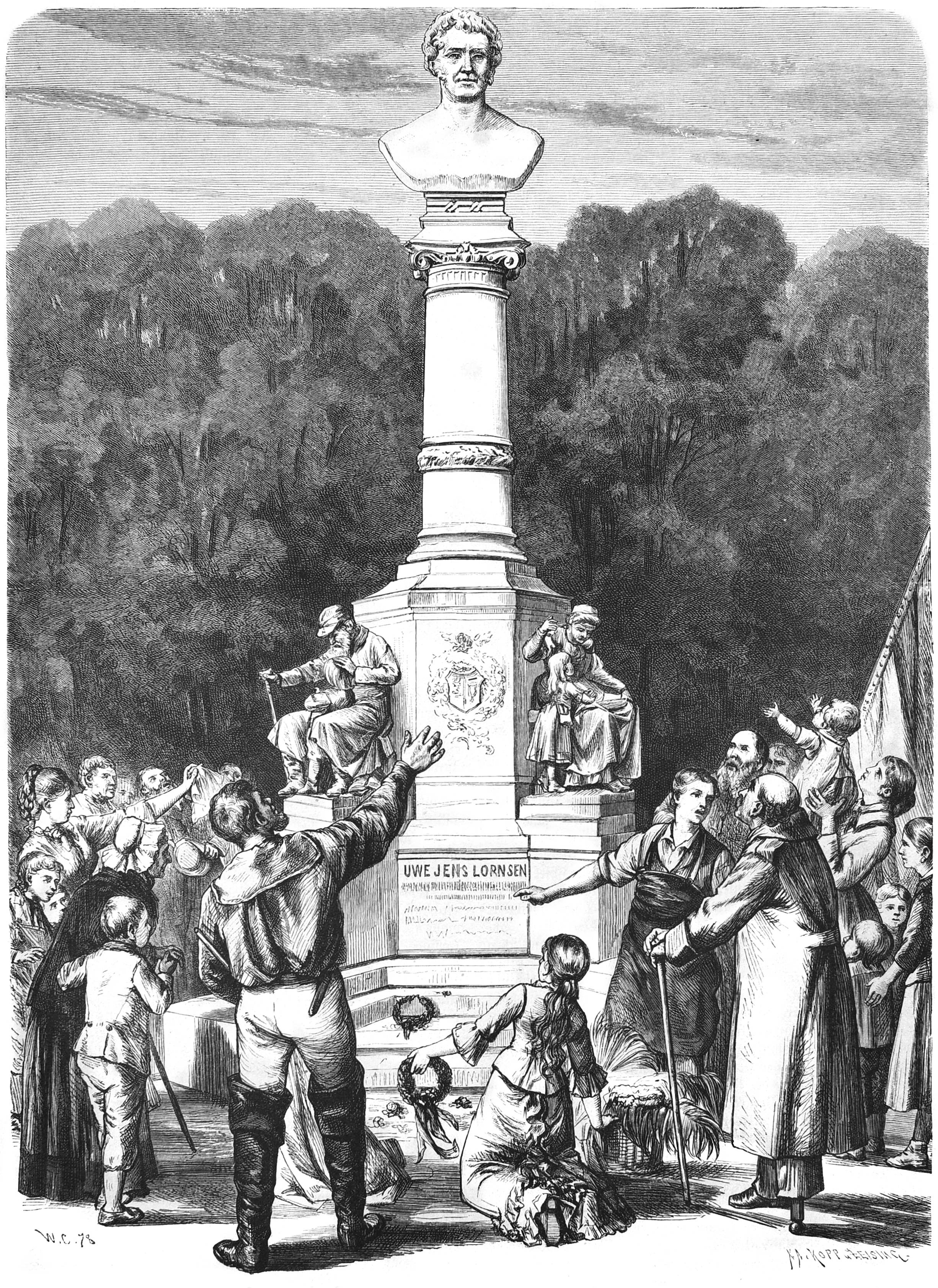 caption: "Das Lornsen-Denkmal zu Rendsburg im Augenblick der Enthüllung. Für die „Gartenlaube“ aufgenommen von Wilhelm Claudius."